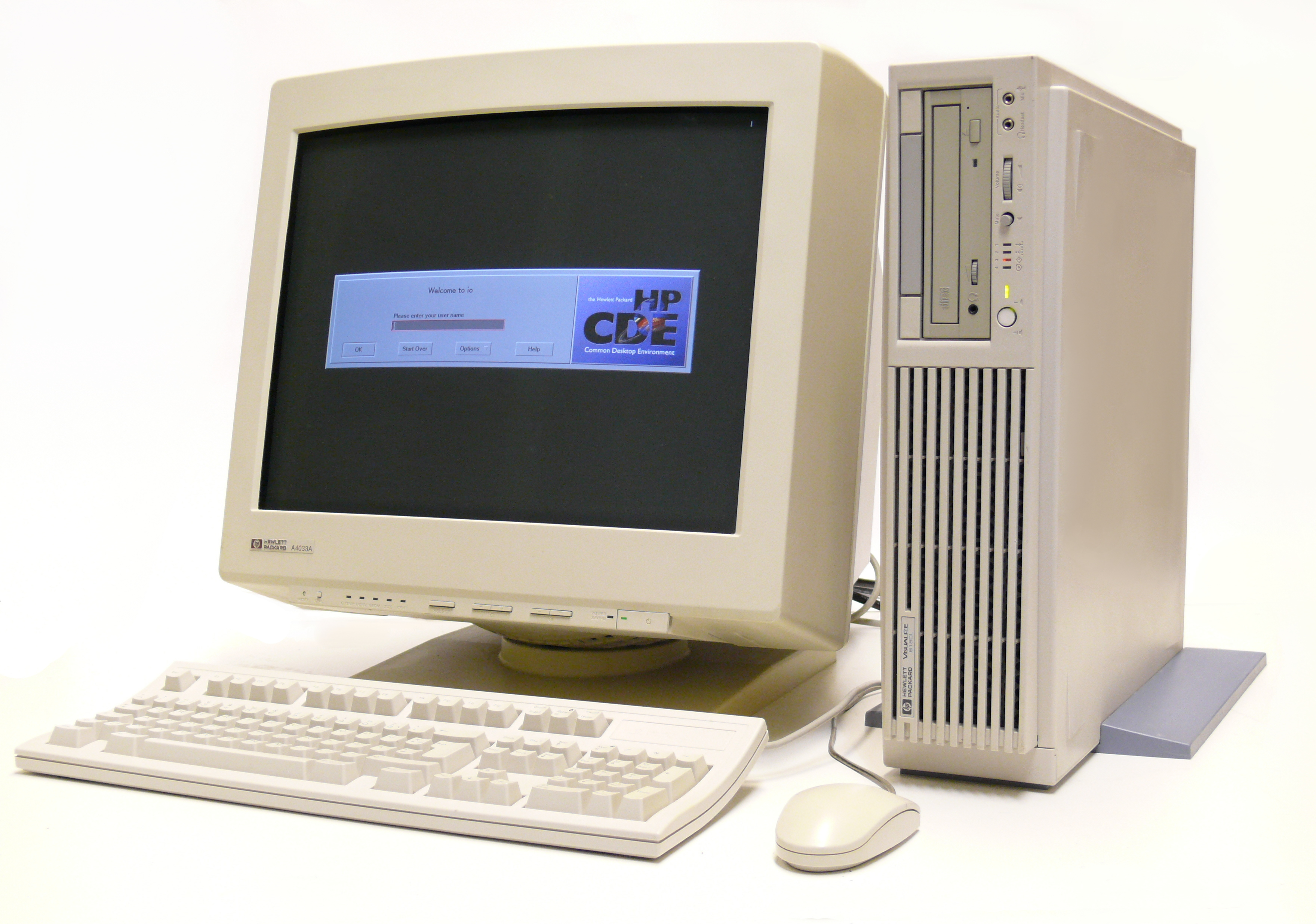 Hewlett-Packard HP9000 Unix Workstation B-Class, Model B180L, PA-RISC 7300LC CPU - 32 Bit - 180 MHz, max. 1.5 GByte RAM, SCSI2-SE, SCSI2-Ultra Wide SE, PCI 32/33, 100 MBit LAN, 16 Bit Audio, PS2, Visualize-EG Graphics Adapter, HP-UX 10.20, CDE, HP A4033A 20inch Color CRT